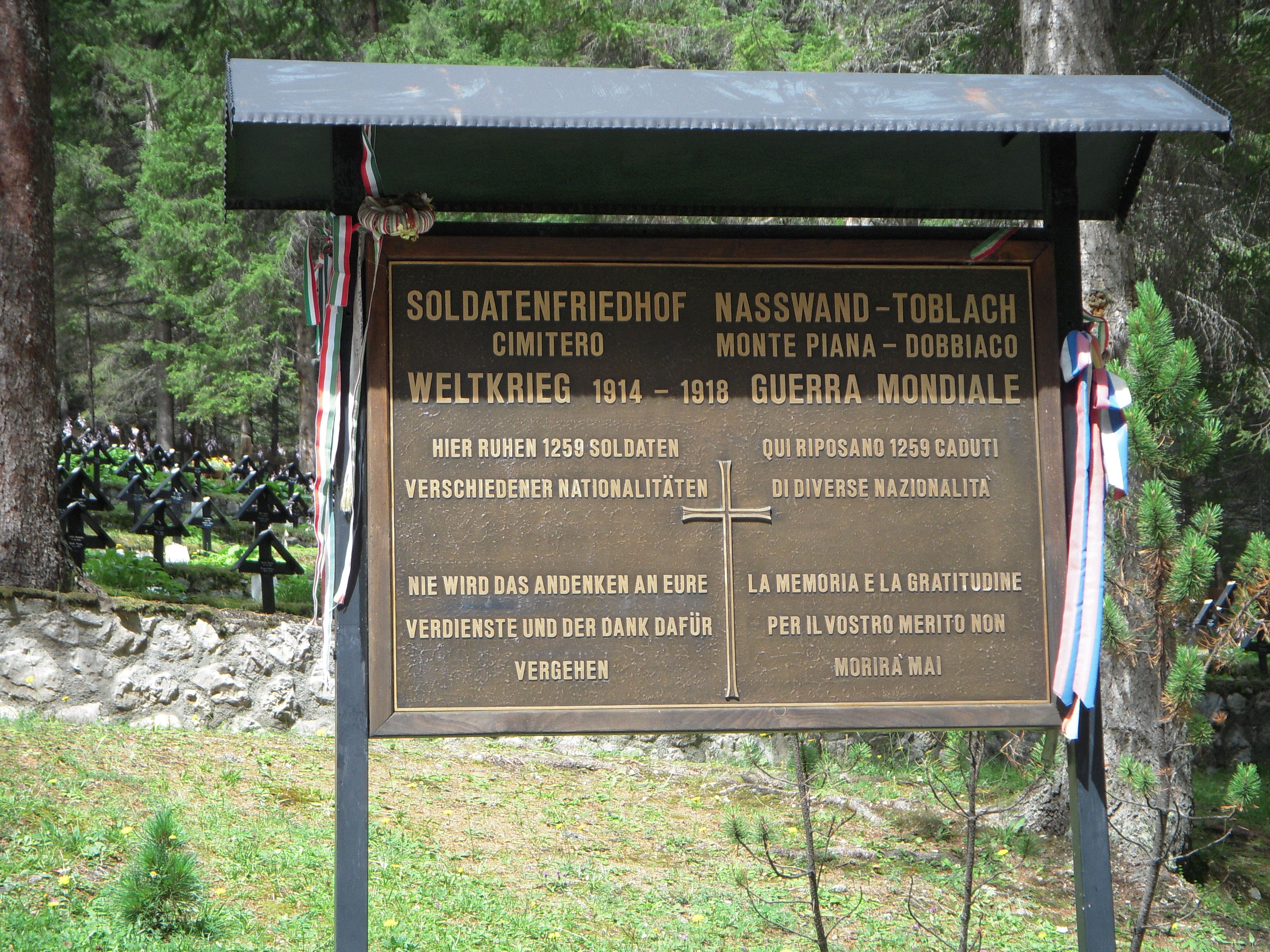 The soldier cemetery Naßwand in the Dolomittes in South Tirol, Italy. August 9, 2012.